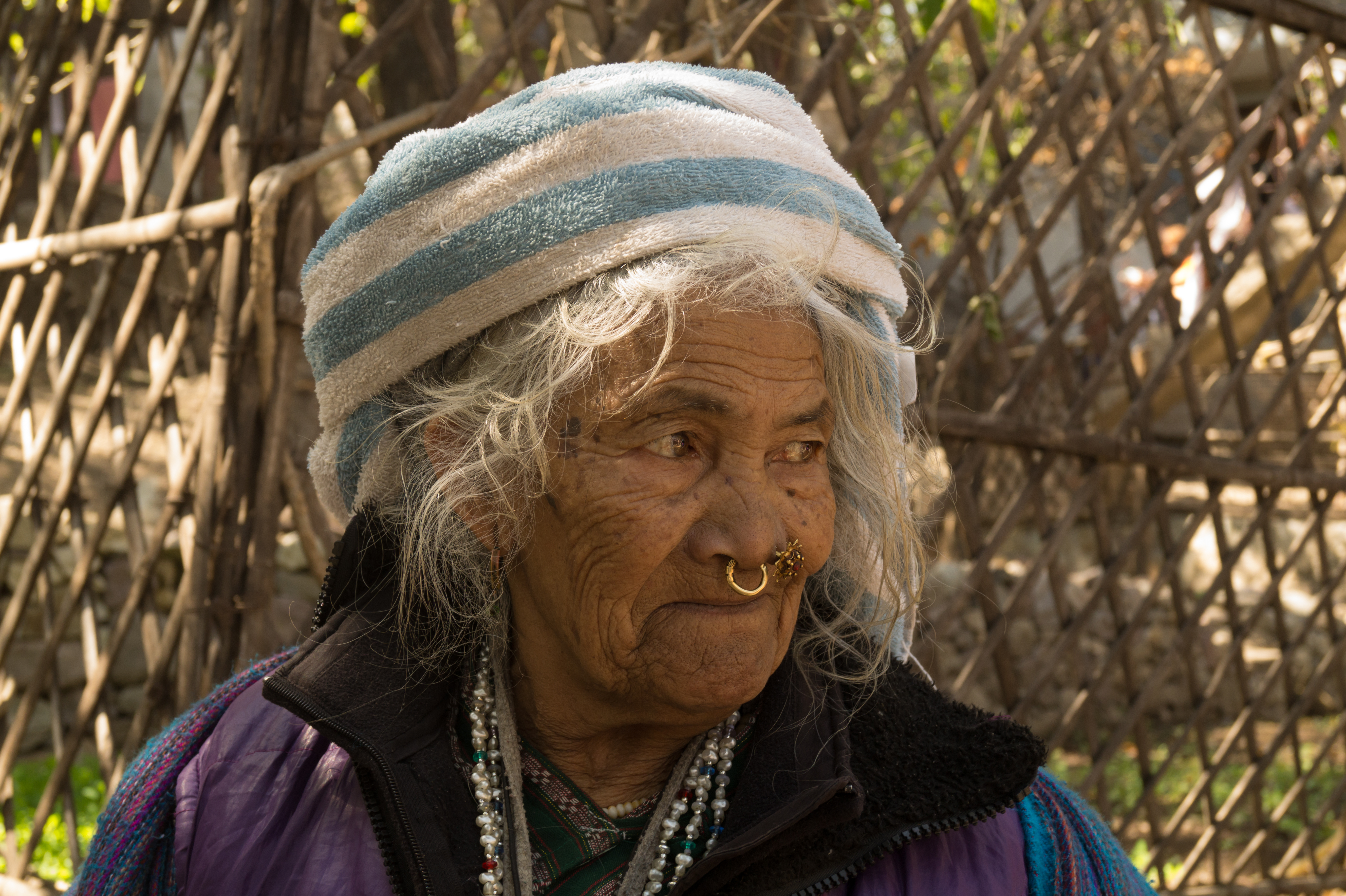 Native Garhwali Woman In Rishikesh